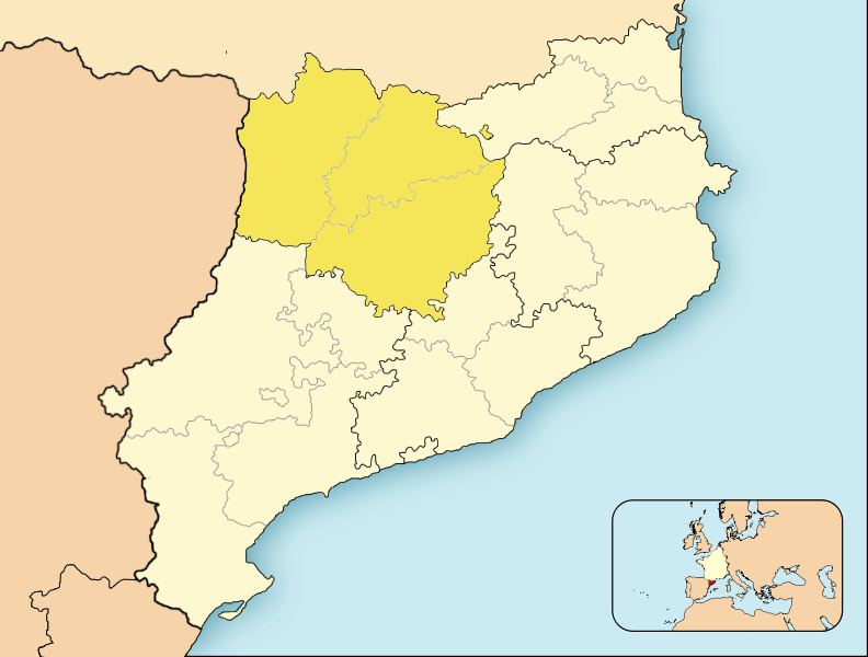 Departament del Segre